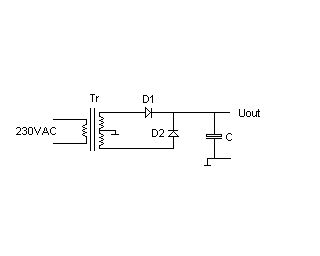 Diode full-wave rectifier